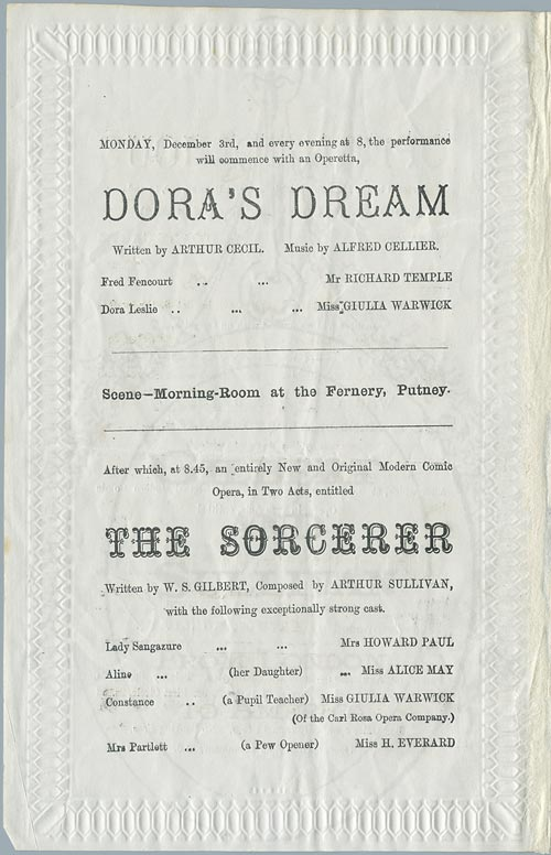 Information from the programme for Dora's Dream and The Sorcerer, 1877